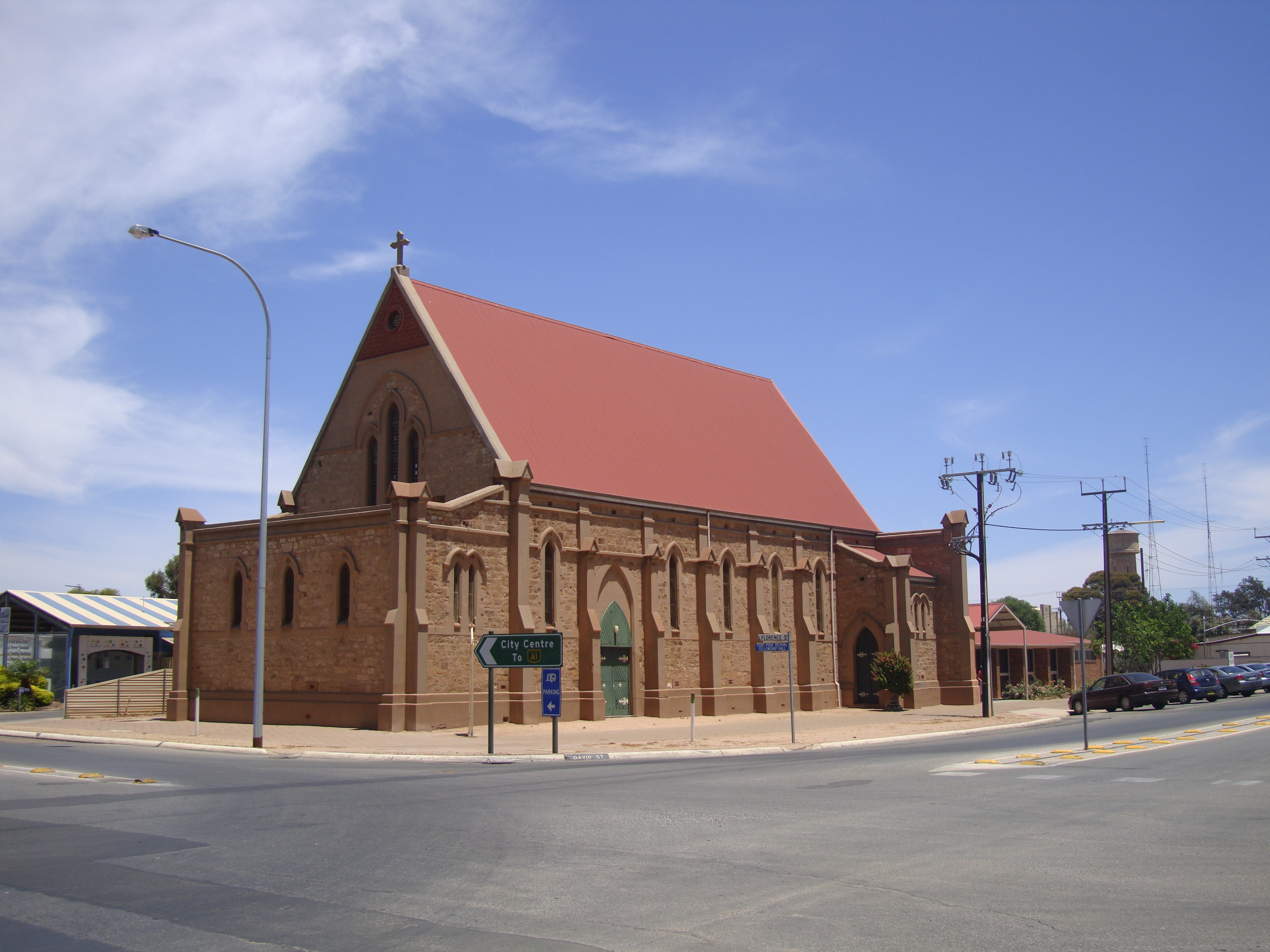 Photograph of SS Peter & Paul's Cathedral, Port Pirie, South Australia